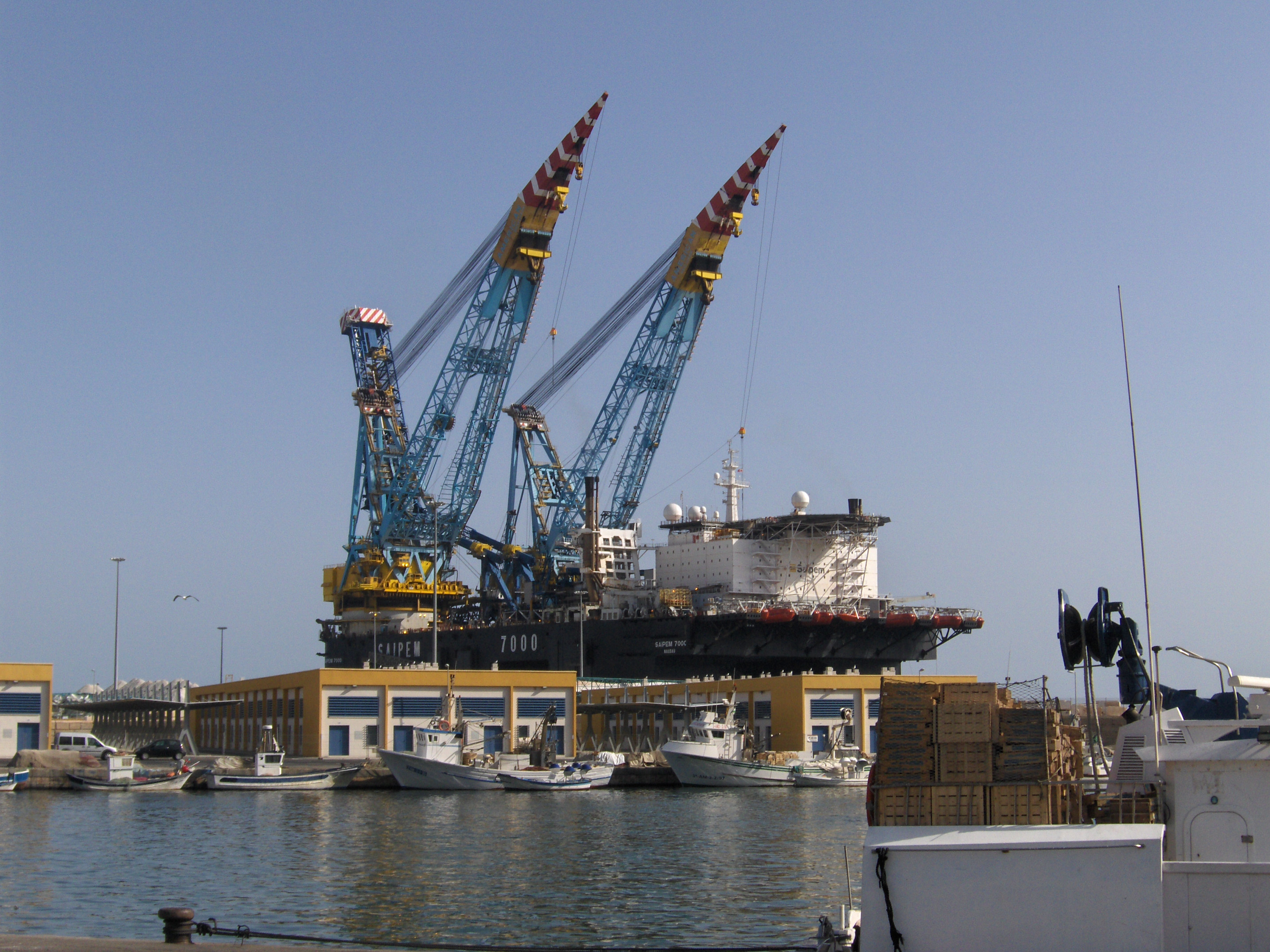 Saipem 7000 crane at Almería